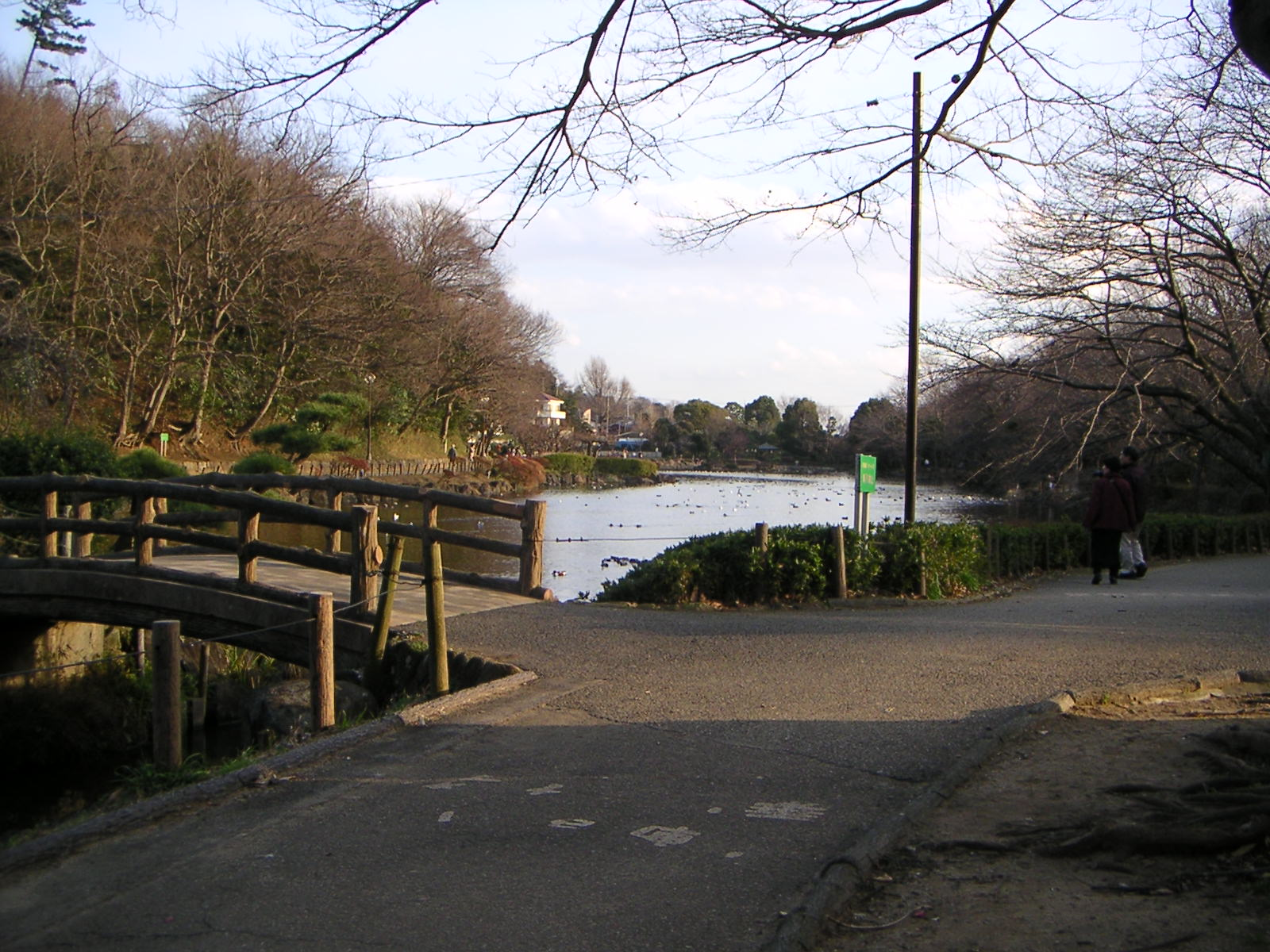 Brasenia schreberi Green space in Ichikawa,Chiba